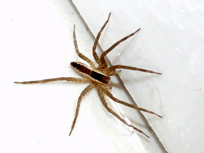 Pisaura brevipes, a kind of fishing spider. Collected at: 36° N 80° W.